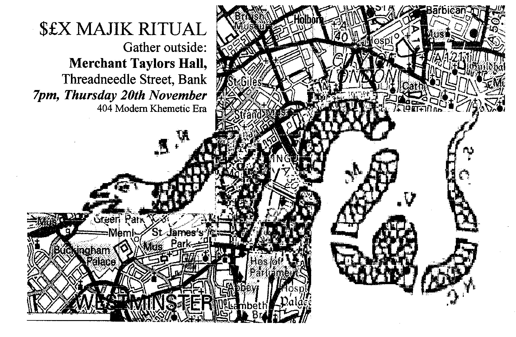 evol psychogeographic